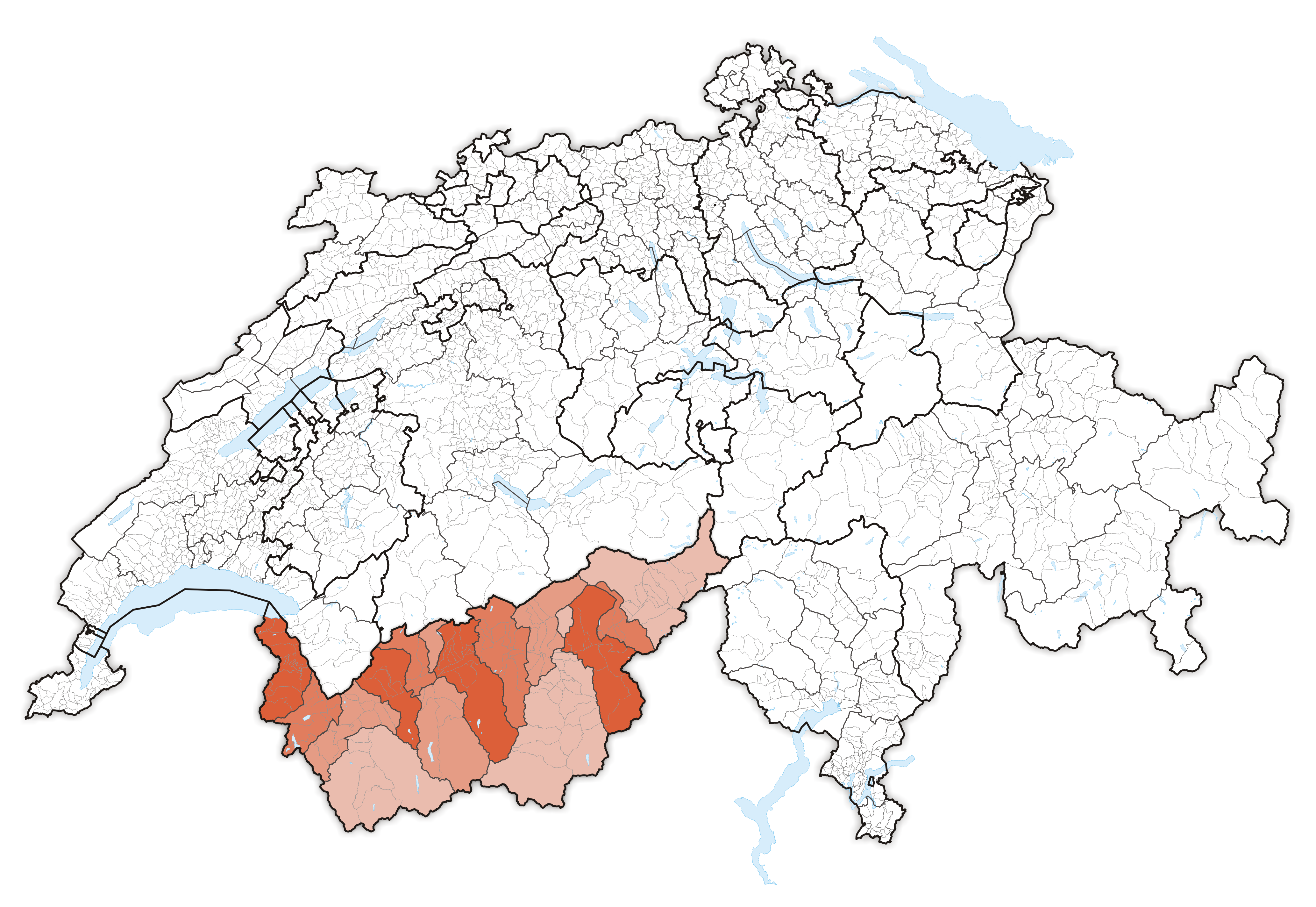 Canton Wallis